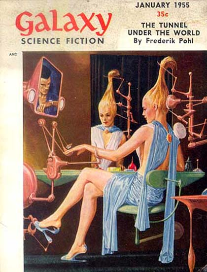 Cover of Galaxy, January 1955